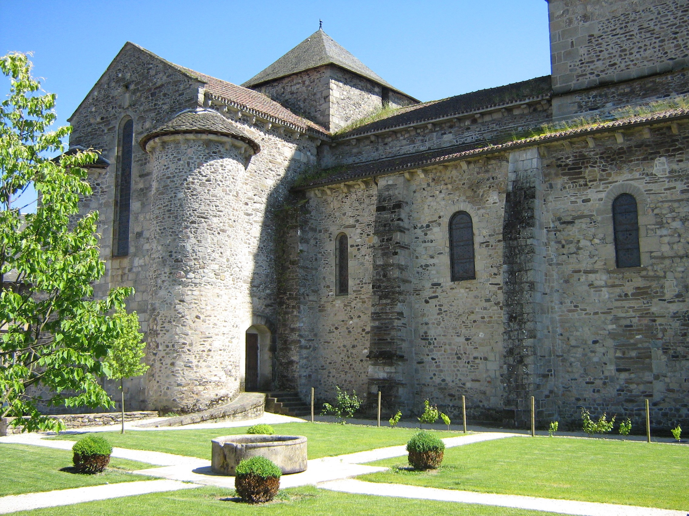 uzerche